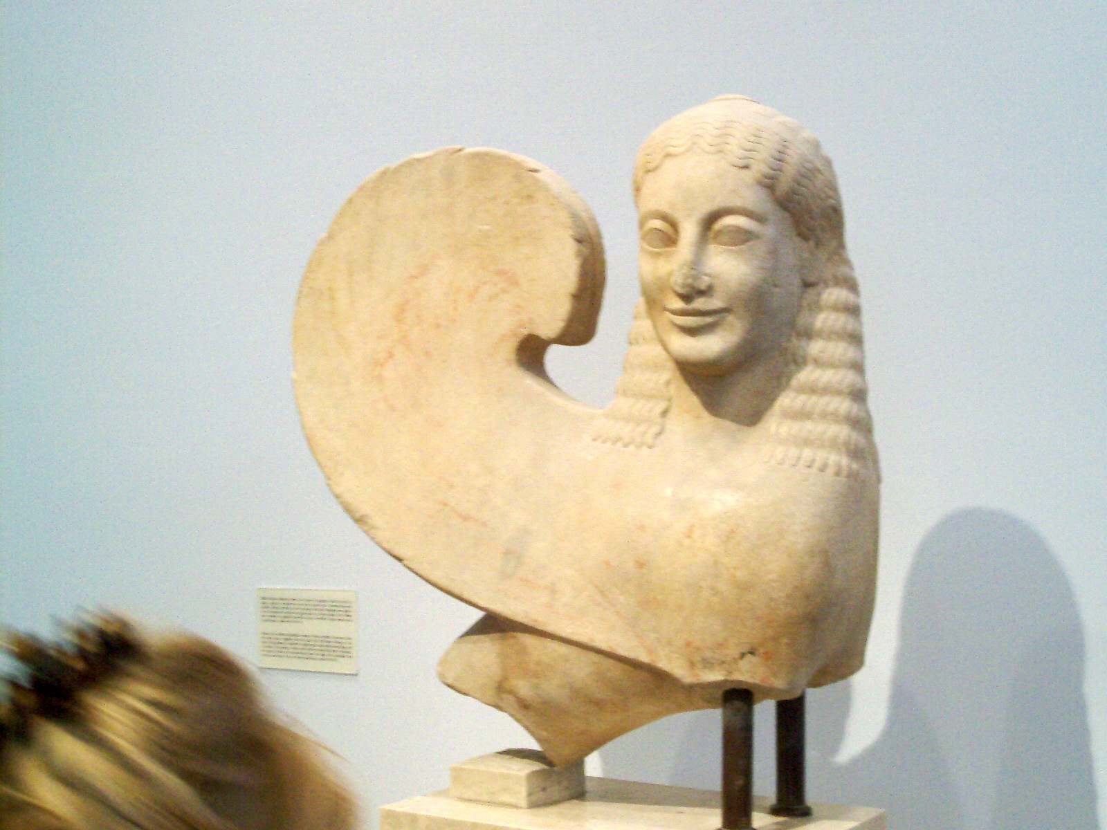 Votive sphinx.